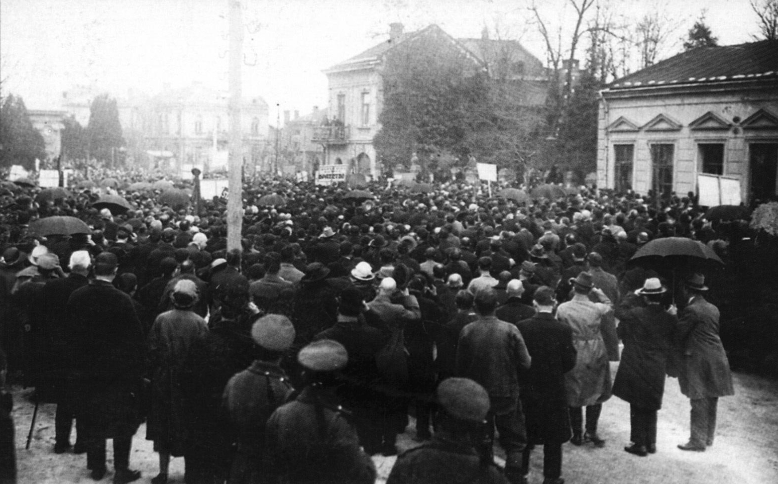 protest